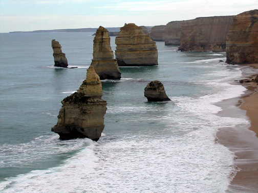 Australia South Coast: Twelve Apostles at the Great Ocean Road